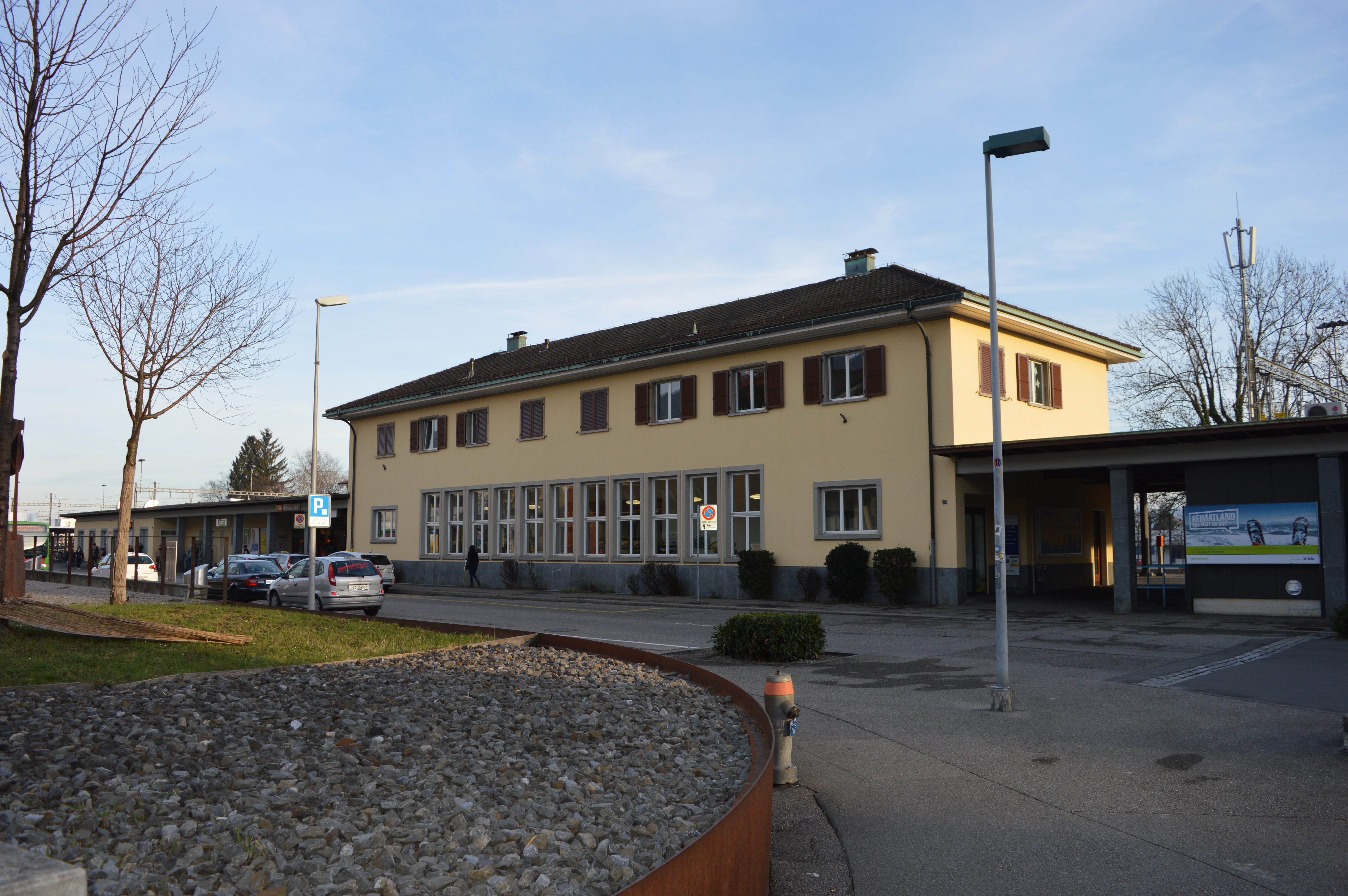 Train station Grenchen Süd, canton of Solothurn, Switzerland